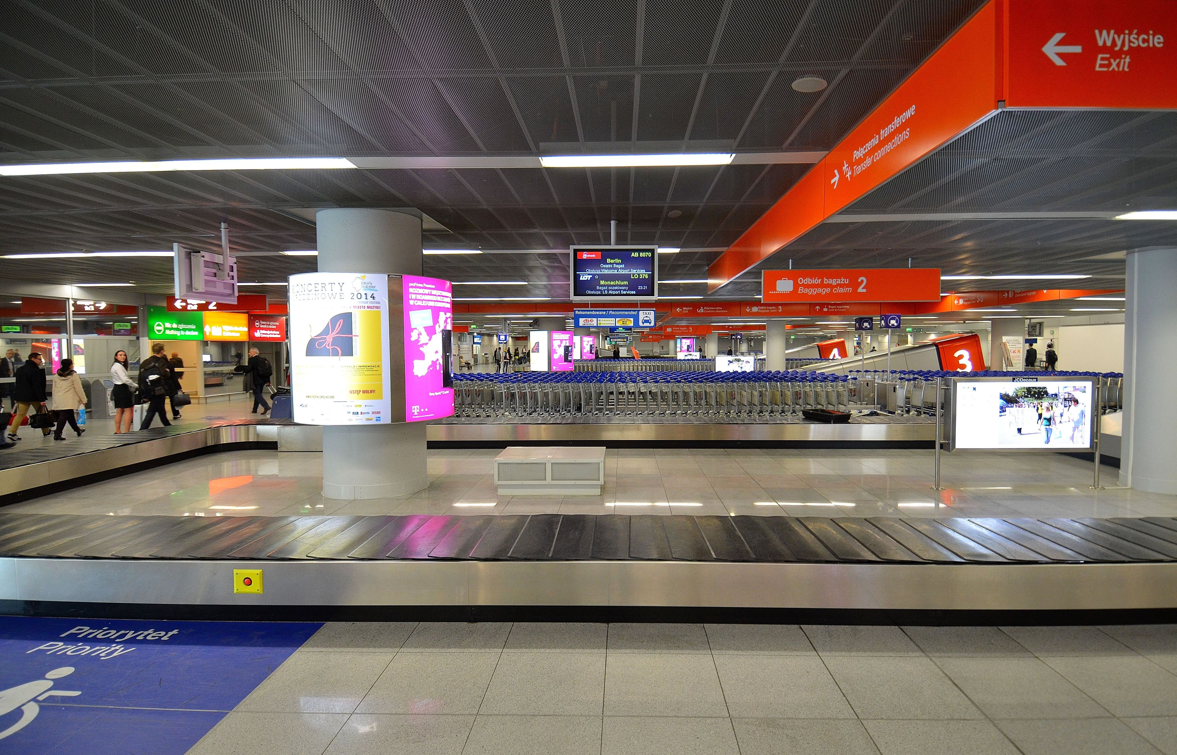 Warsaw Frederick Chopin Airport. Baggage claim area in the Terminal A